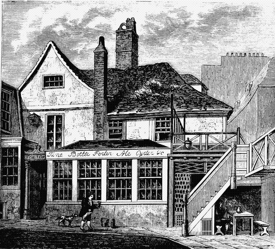 The manor house of Toten Hall - From a View published by Wilkinson, 1813